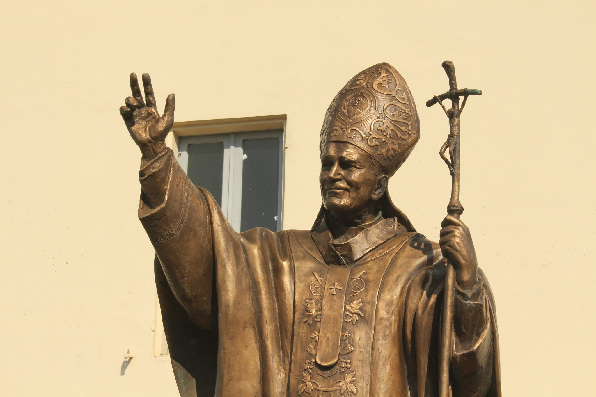 This image has been originally created as the illustration for Johannes Paulus II entry in crosswords dictionary . It has been released under CC-BY-3.0 license.